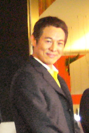 Jet Li at the preview of the film The Warlords at SF World Cinema, CentralWorld, Bangkok.